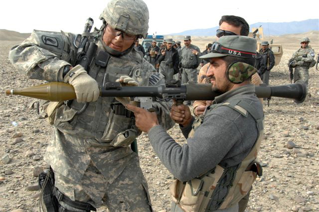 A U.S. Army Soldier from Headquarters and Headquarters Company, 173rd Special Troops Battalion coaches an Afghan National Police officer as he prepares to fire a rocket-propelled grenade launcher during a skills assessment mission on a range in Beshud, Afghanistan, Feb. 13, 2008. (U.S. Army photo by Spc. Justin French) (